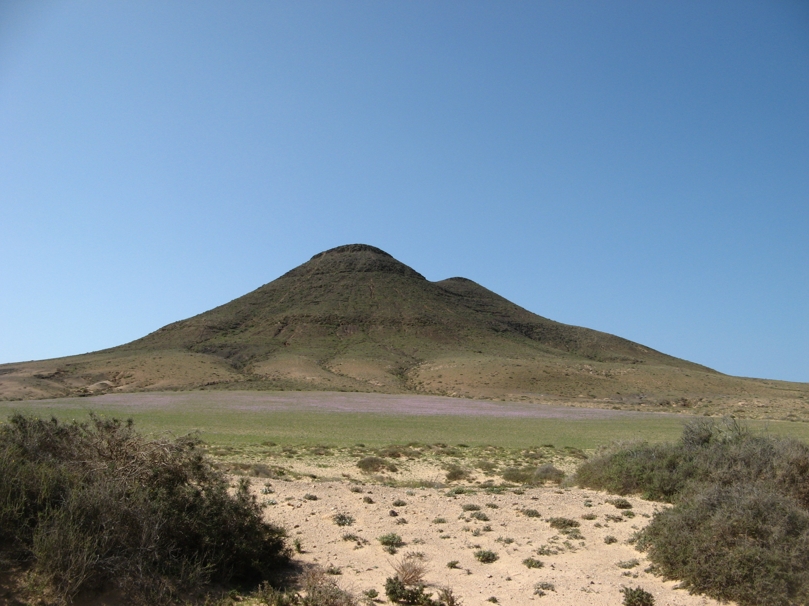 A picture of a dormant volcano in Fuerteventura with a base of pink flowers.